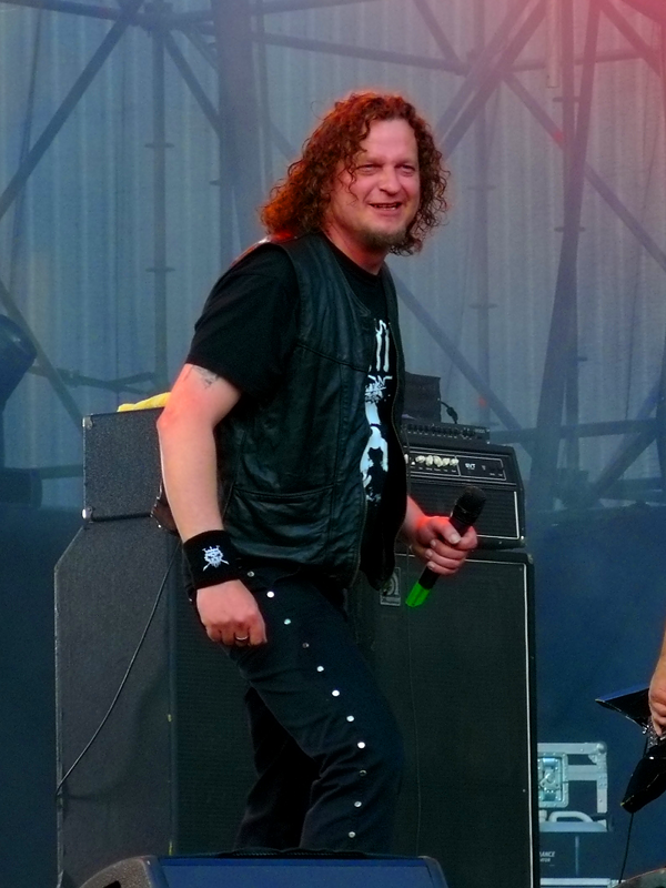 Denis Bélanger on Masters of Rock '09